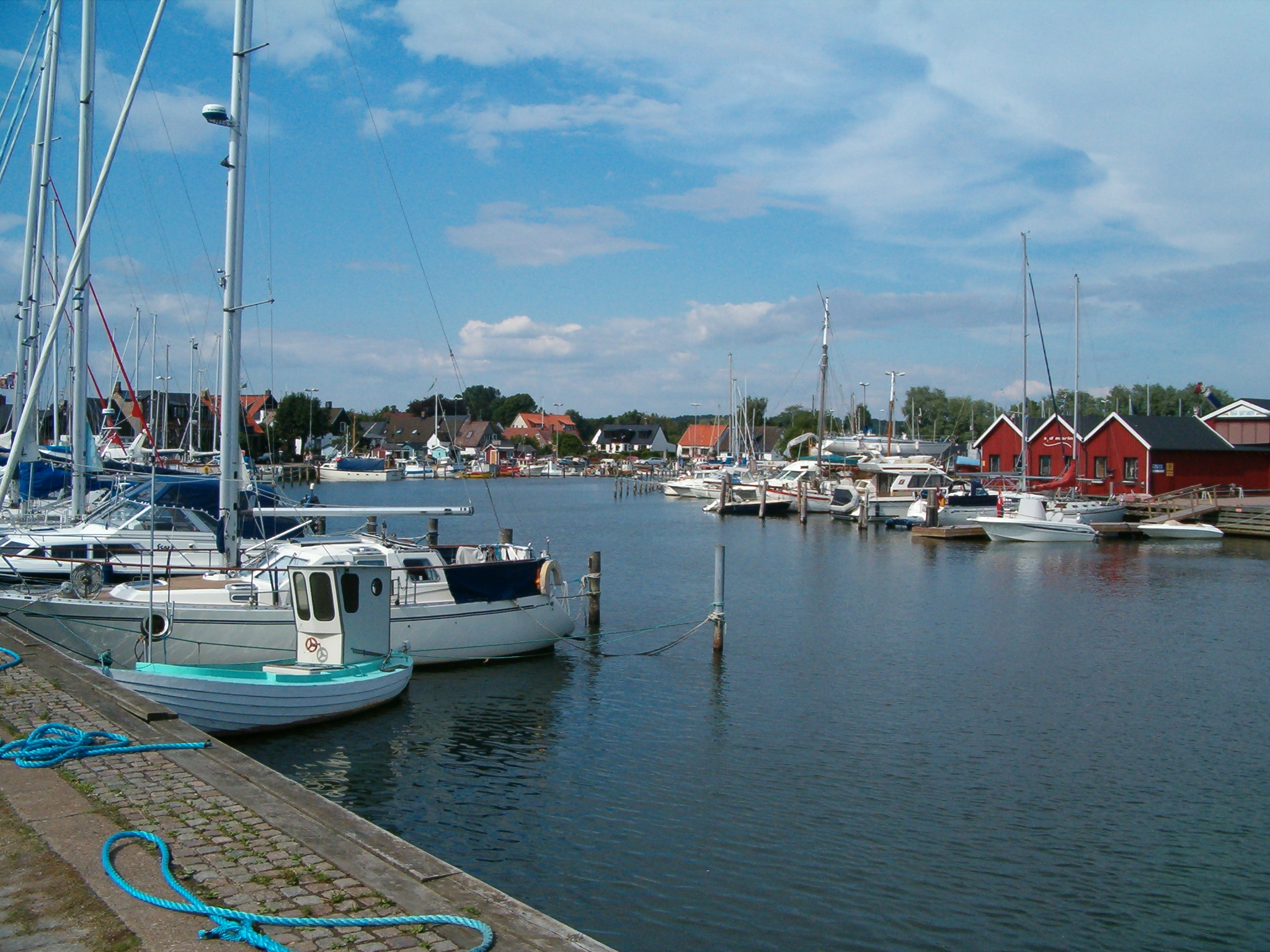 The marina at Råå in Helsingborg, Sweden.